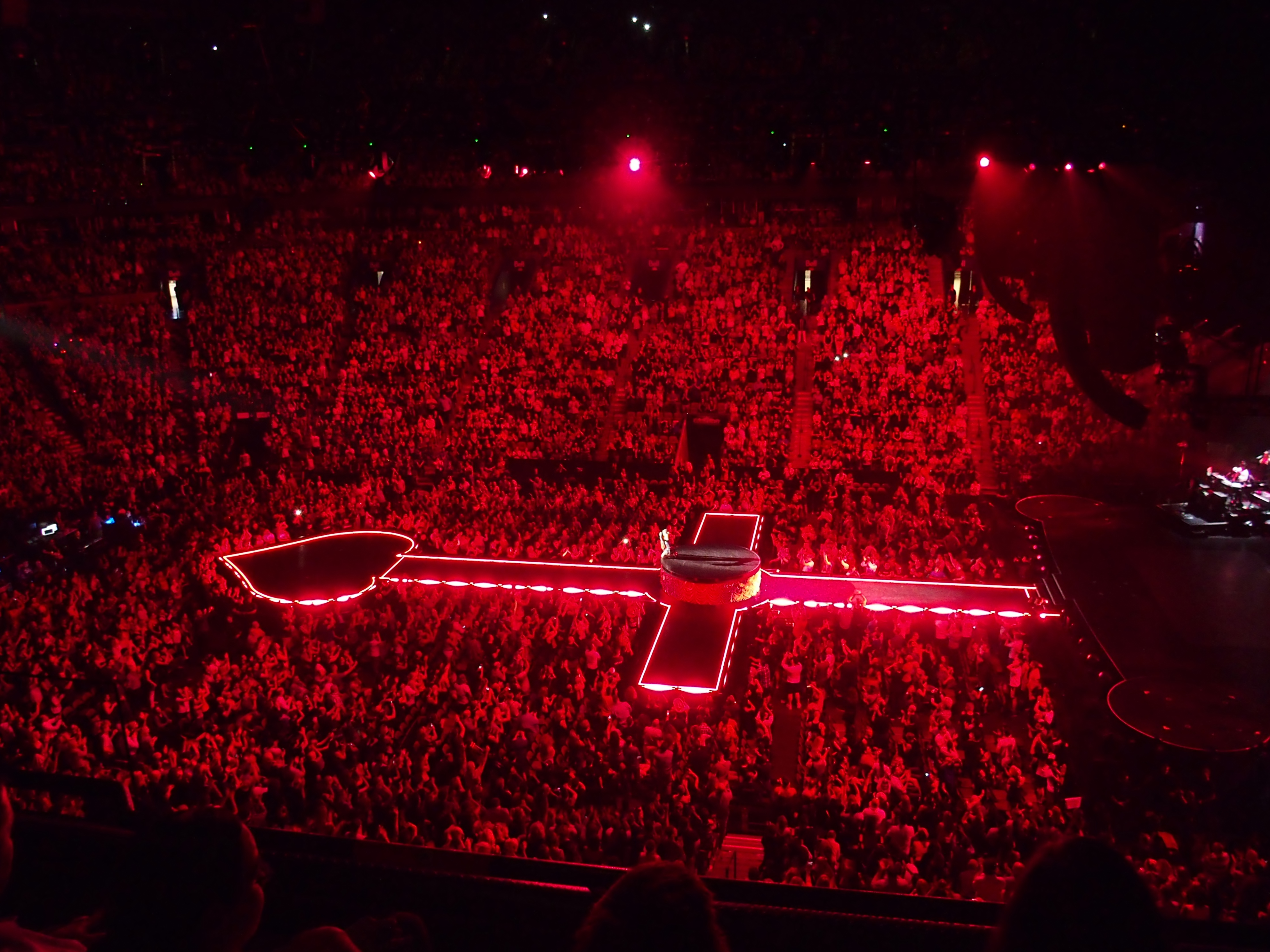 Madonna, Rebel Heart Tour, Bell Center, Olympus Stylus 1, Montréal, 10 September 2015 (121) Madonna performing on the Rebel Heart Tour